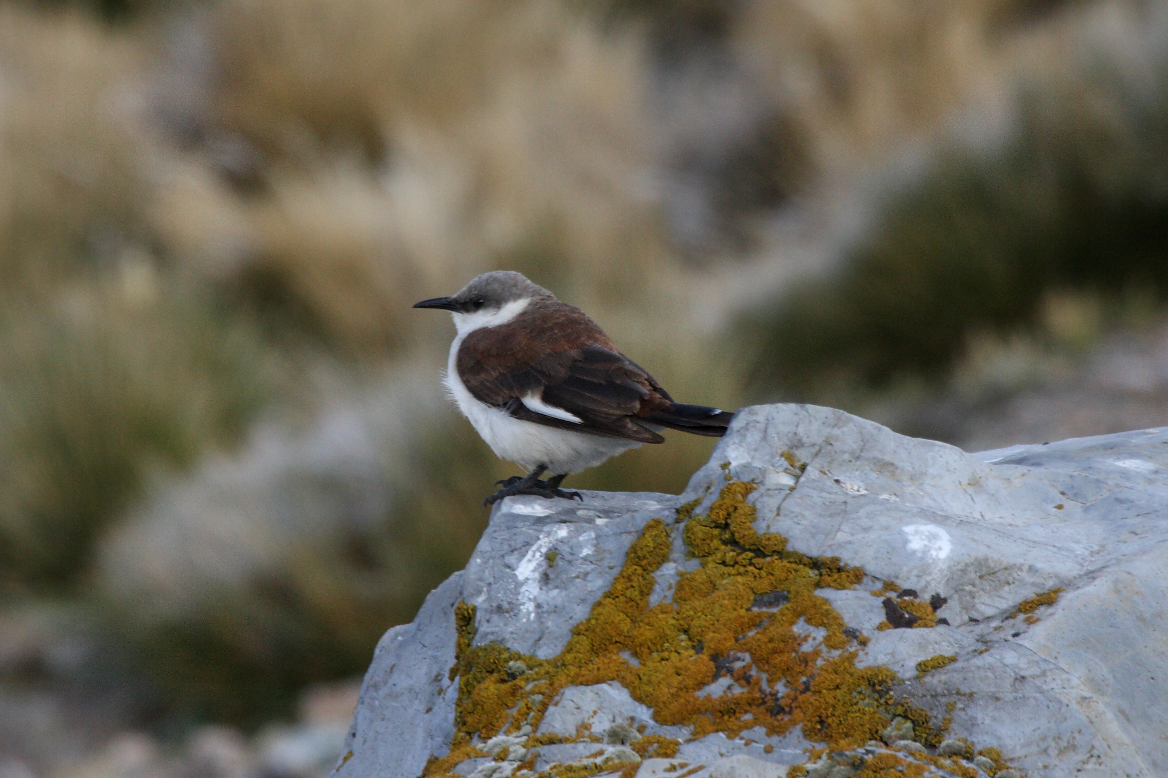 White-bellied cinclodes. Photograph taken near Ticlio Pass.